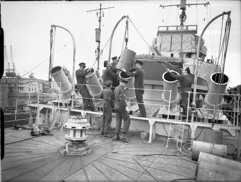 IWM caption : The Battle of the Atlantic 1939-1945 Anti-Submarine Weapons: The Fairlie Mortar, better known as the "Five Wide Virgins" installed on the forecastle of HMS WHITEHALL. The weapon was not a success and was withdrawn from service. Comment : this is not in fact the Fairlie mortar, which fired 20 x 20-pound projectiles. This appears to show the experimental Thornycroft long-range depth charge thrower.